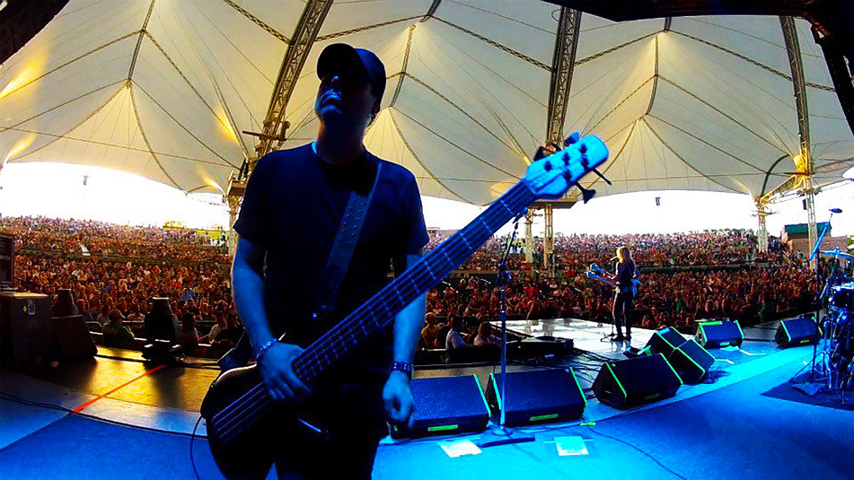 Bassist Marty O'Brien on tour with Lita Ford, Texas, 2012